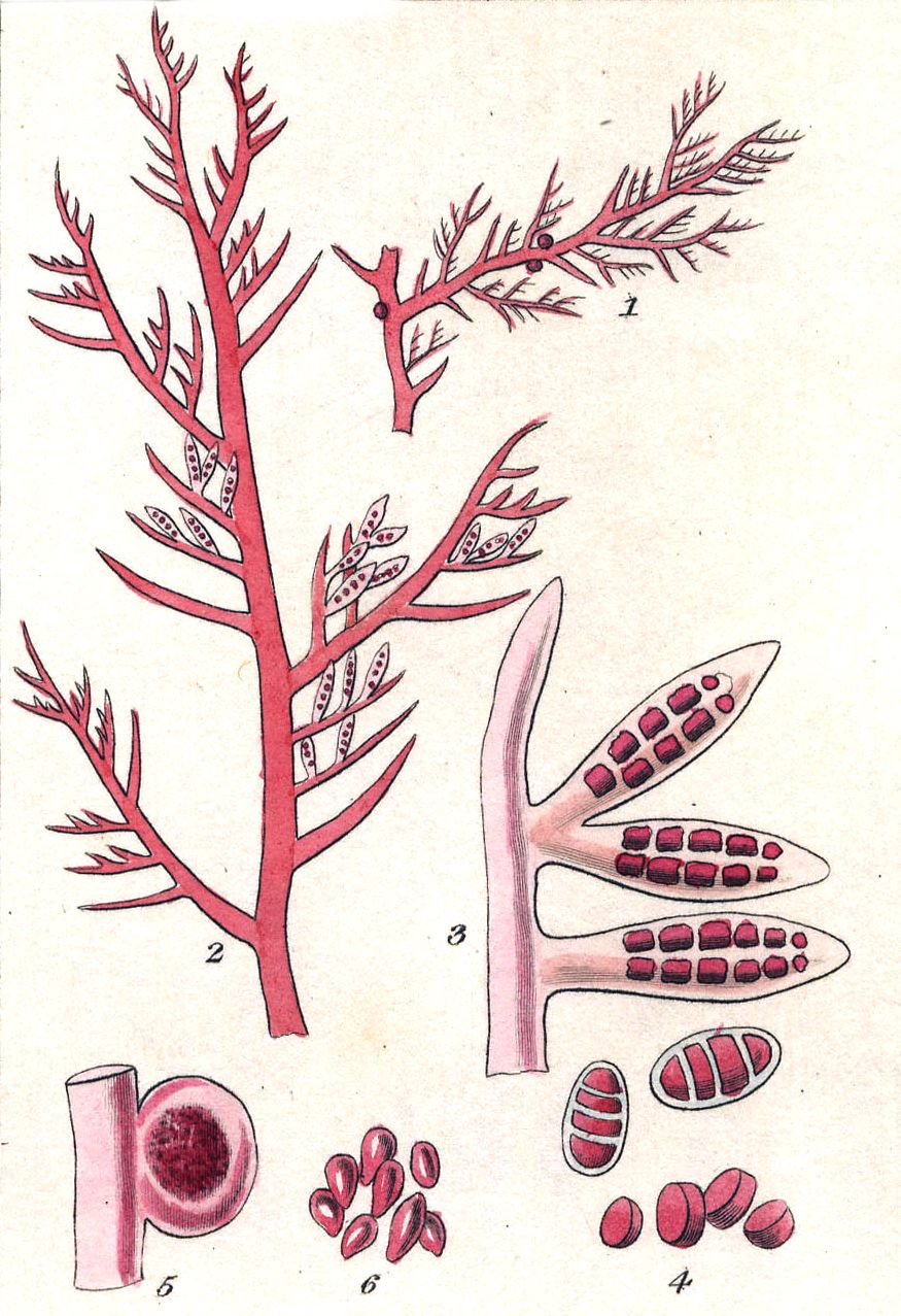 Plocamium cartilagineum (als P. coccineum) from: Florideae, Tab XII, engraved by William Miller after R K Greville from "Algae Britannicae, or Descriptions of the Marine and other Inarticulated Plants of the British Isles belonging to the order Algae; with Plates illustrative of the Genera by Robert Kaye Greville" (Edinburgh: Machlachlen and Stewart, Edinburgh; and Baldwin and Cradock, London 1830)